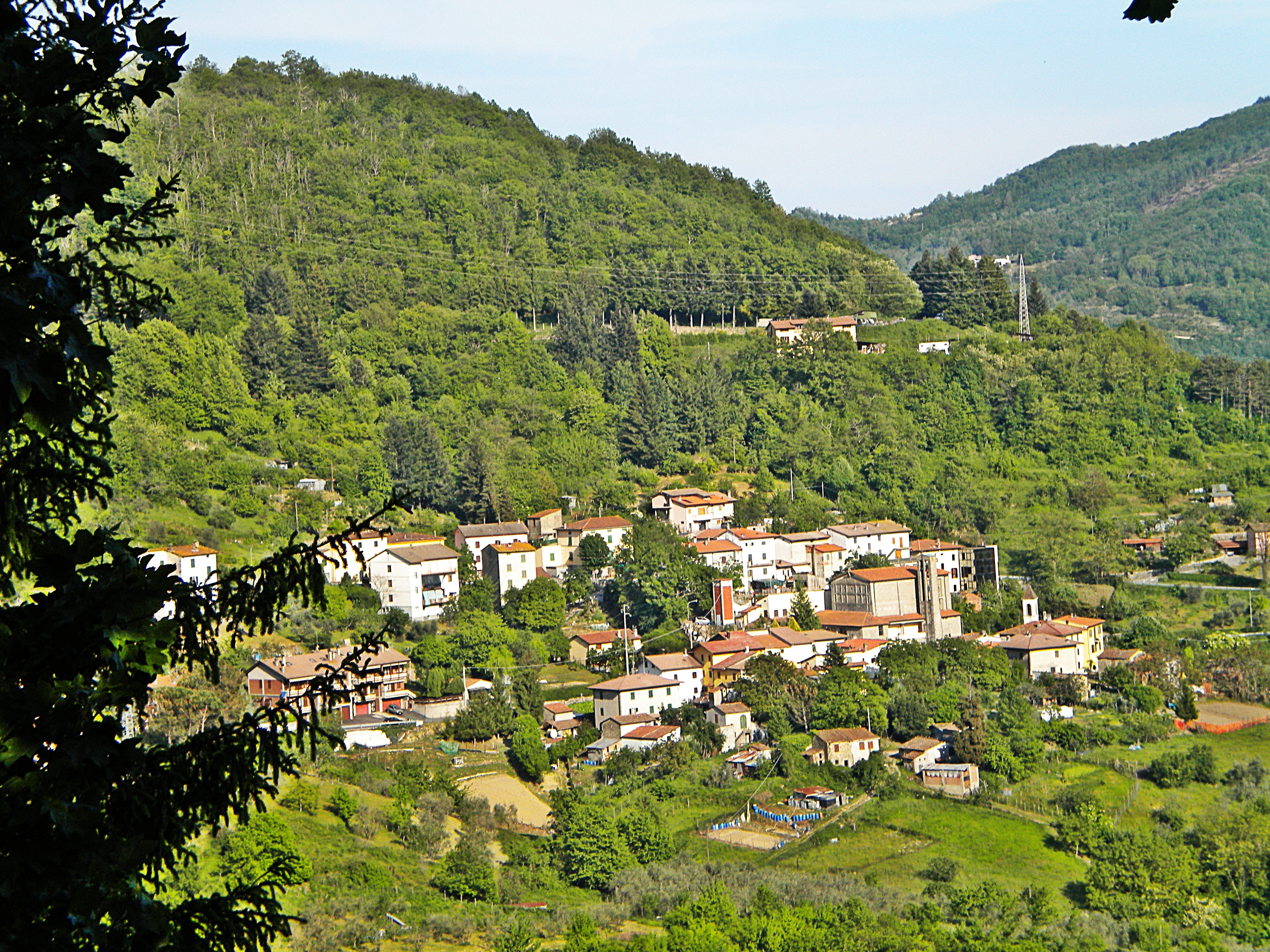 Sasseta